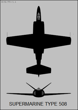 Two-view silhouette drawing of the Supermarine 508.